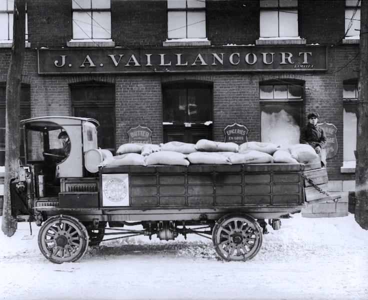 Photograph, Delivery truck, J. A. Vaillancourt Ltd., Montreal, QC, about 1920, Anonymous, Silver salts on glass - Gelatin dry plate process - 20 x 25 cm